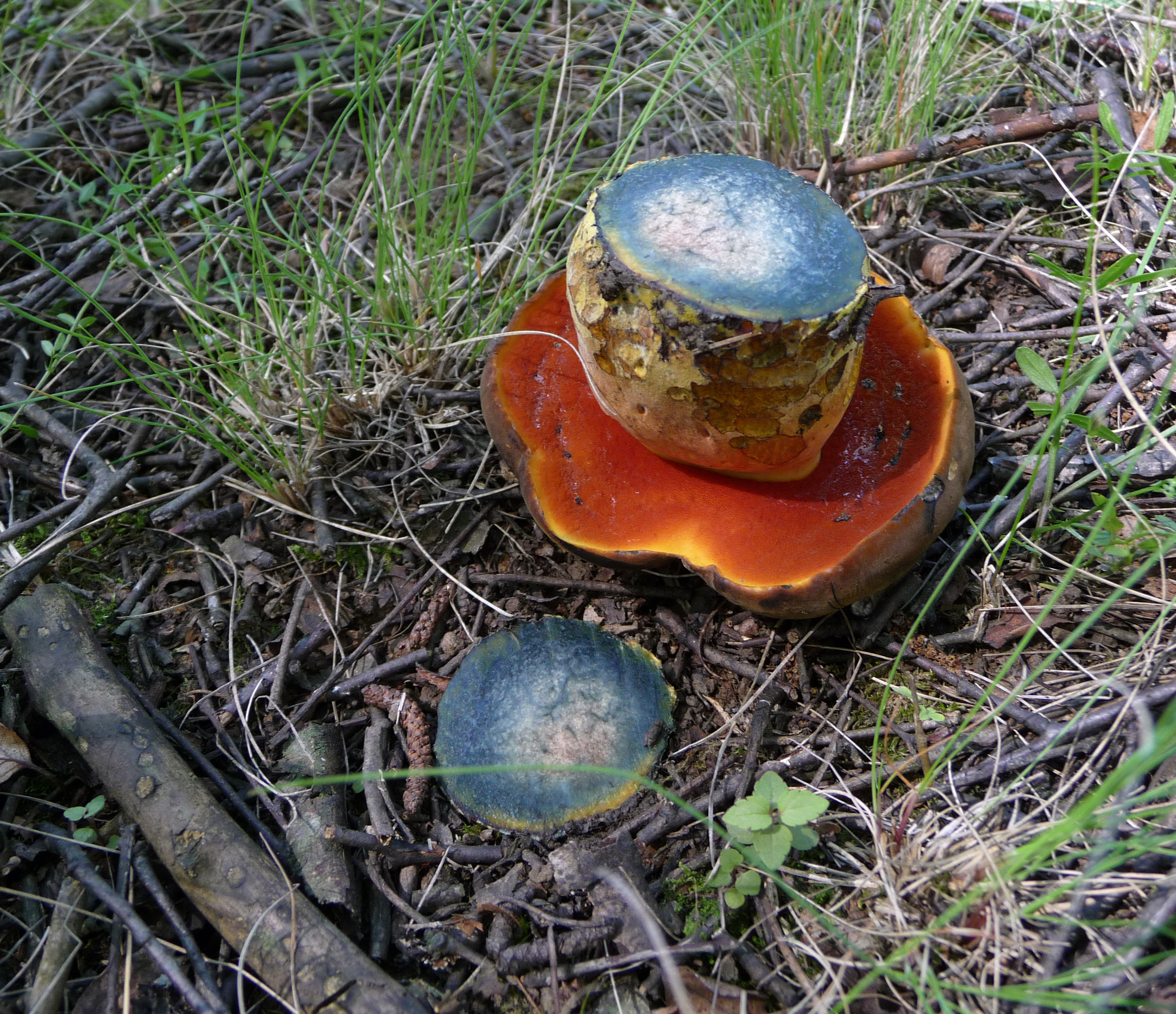 Dotted Stem Bolete Boletus erythropus. Yellow color become blue quickly on cutting (after few seconds). Ukraine.